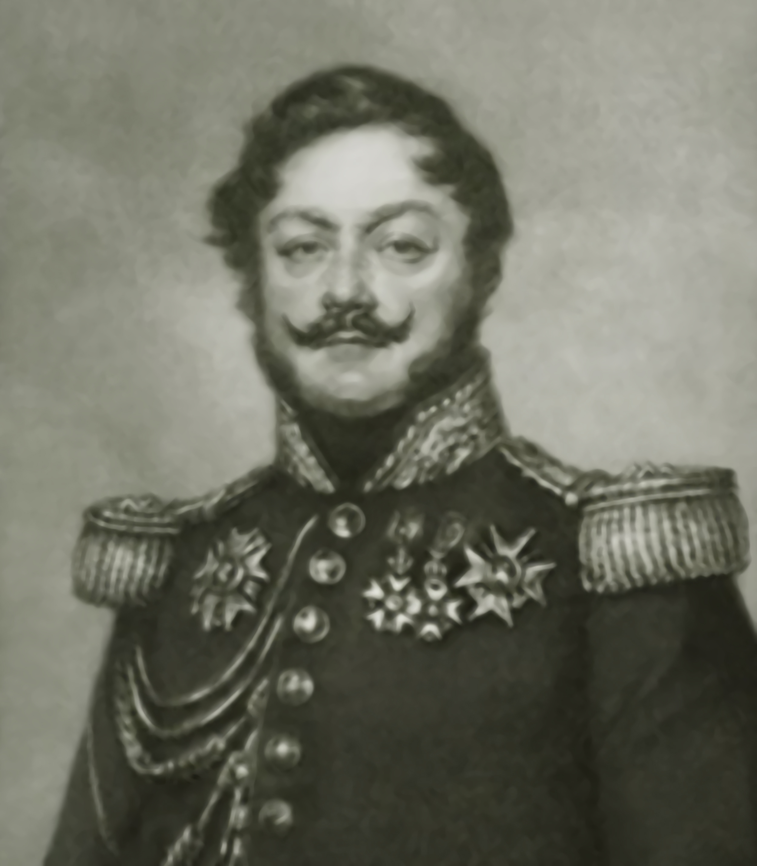 Portrait of Marcellin de Marbot